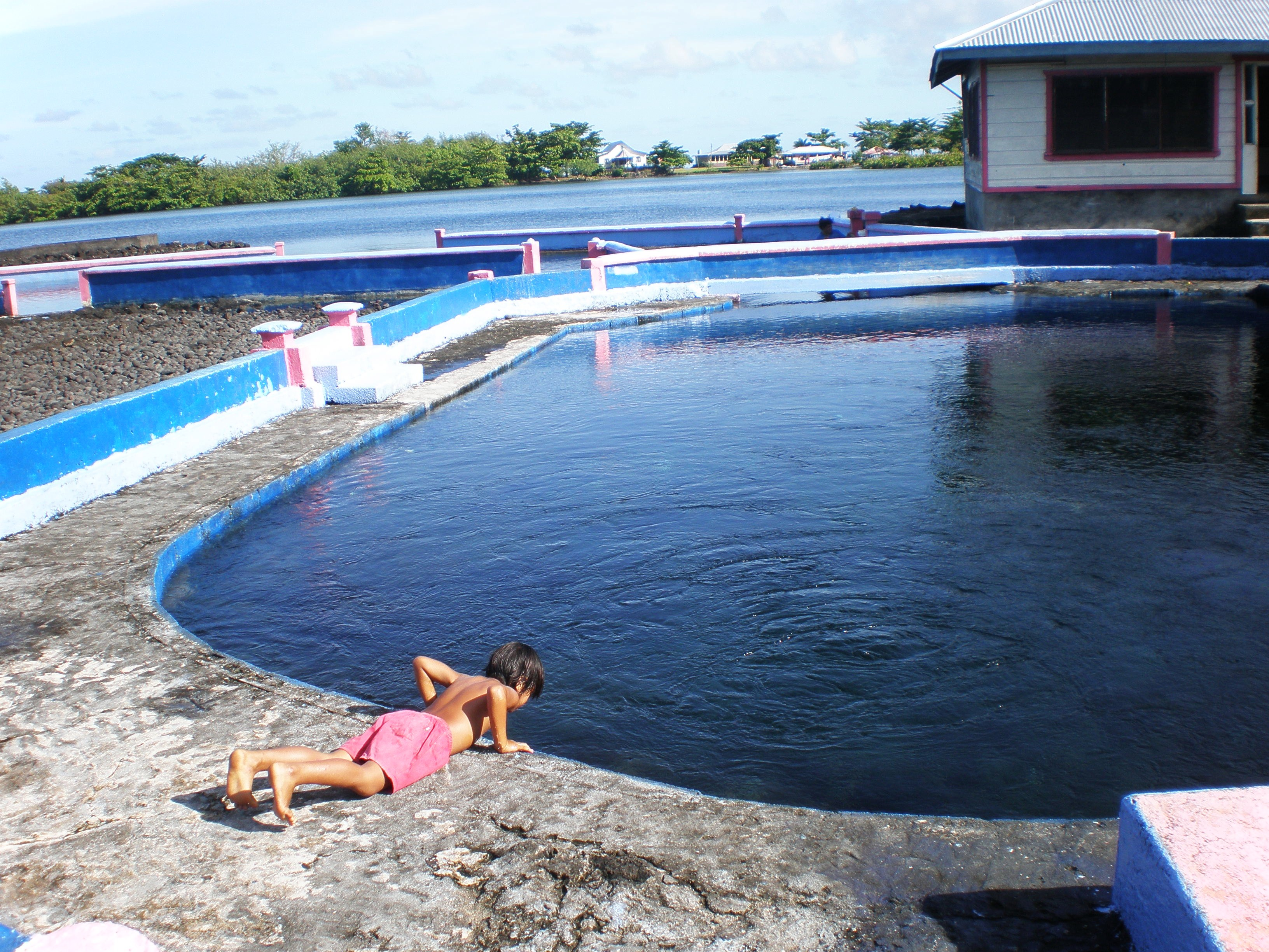 Child lying down to take a drink of water from the Mata o le Alelo Pool, Matavai village, Savai'i, Samoa, 2009